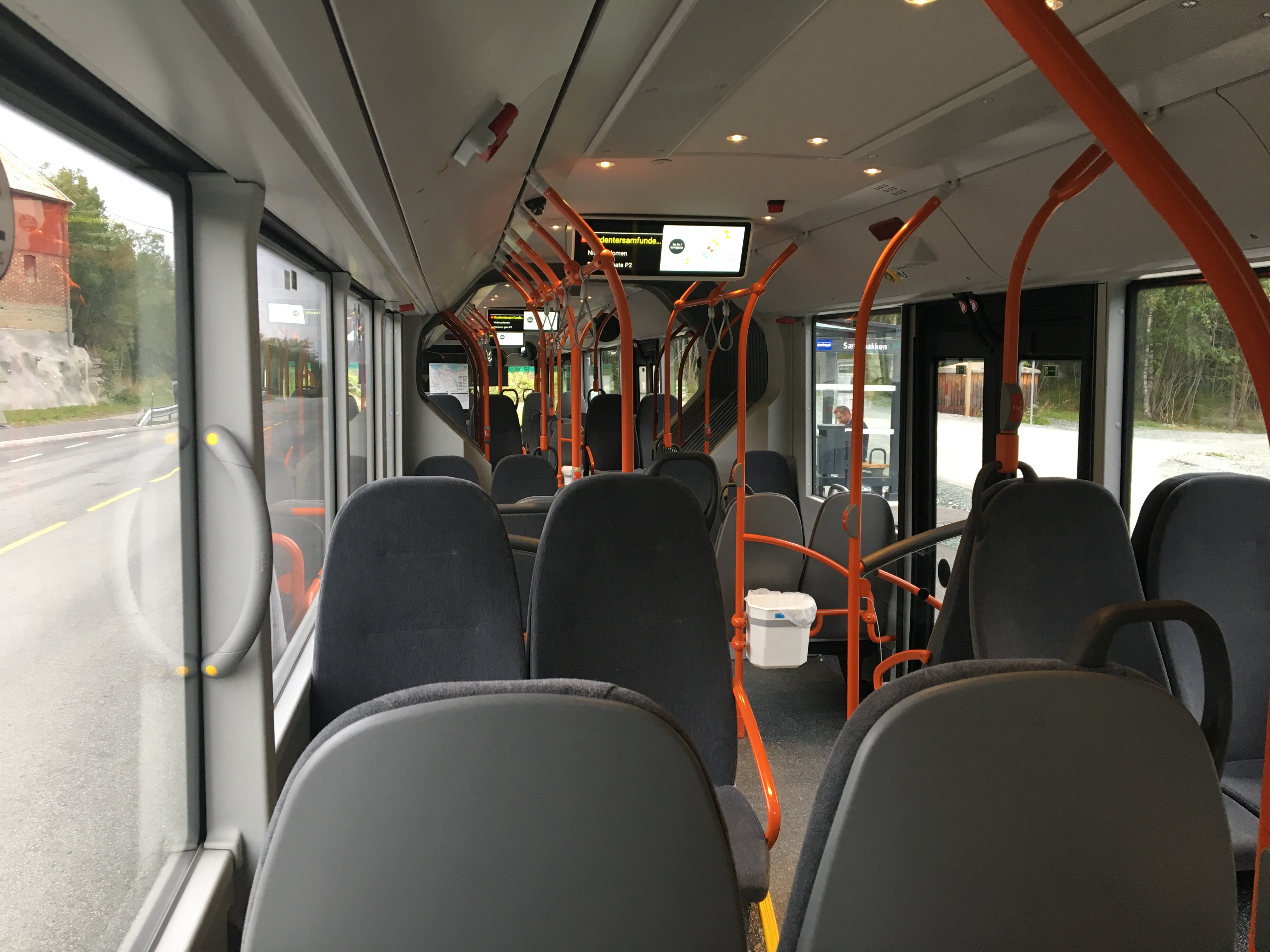 One of AtB's buses driven by Vy Buss from the inside.